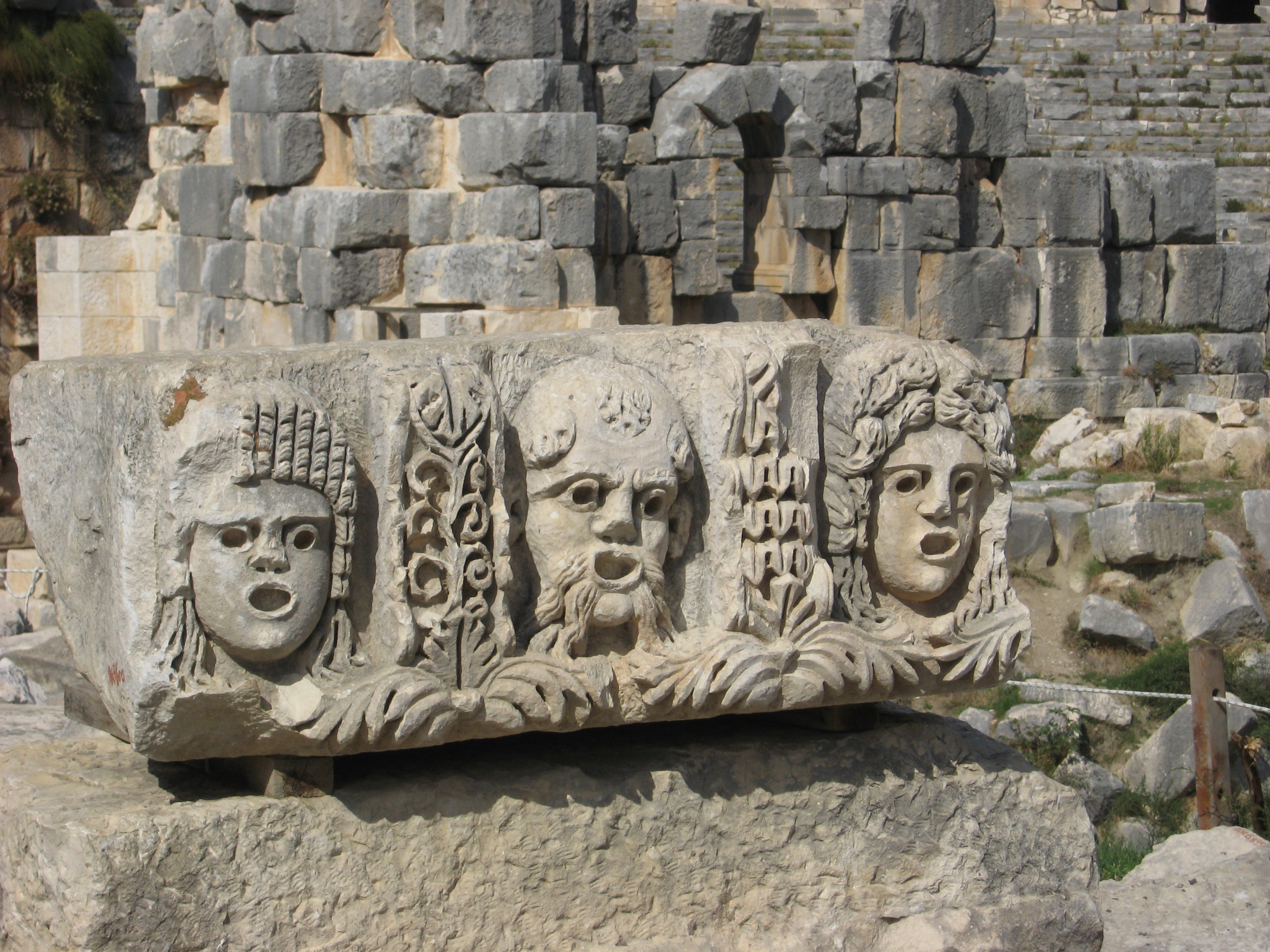 Close-up of stone faces in Myra, Turkey.